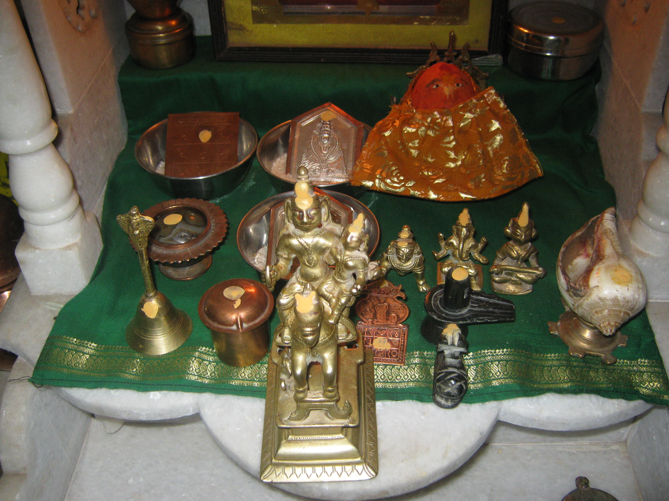 The photograph shows a small brass statue of Khandoba on a horse with his consort in a Deshastha brahmin household.